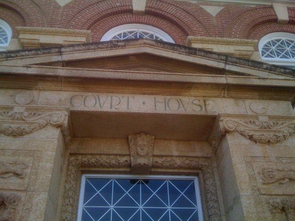 Court House in the town of Battlefords, Saskatchewan